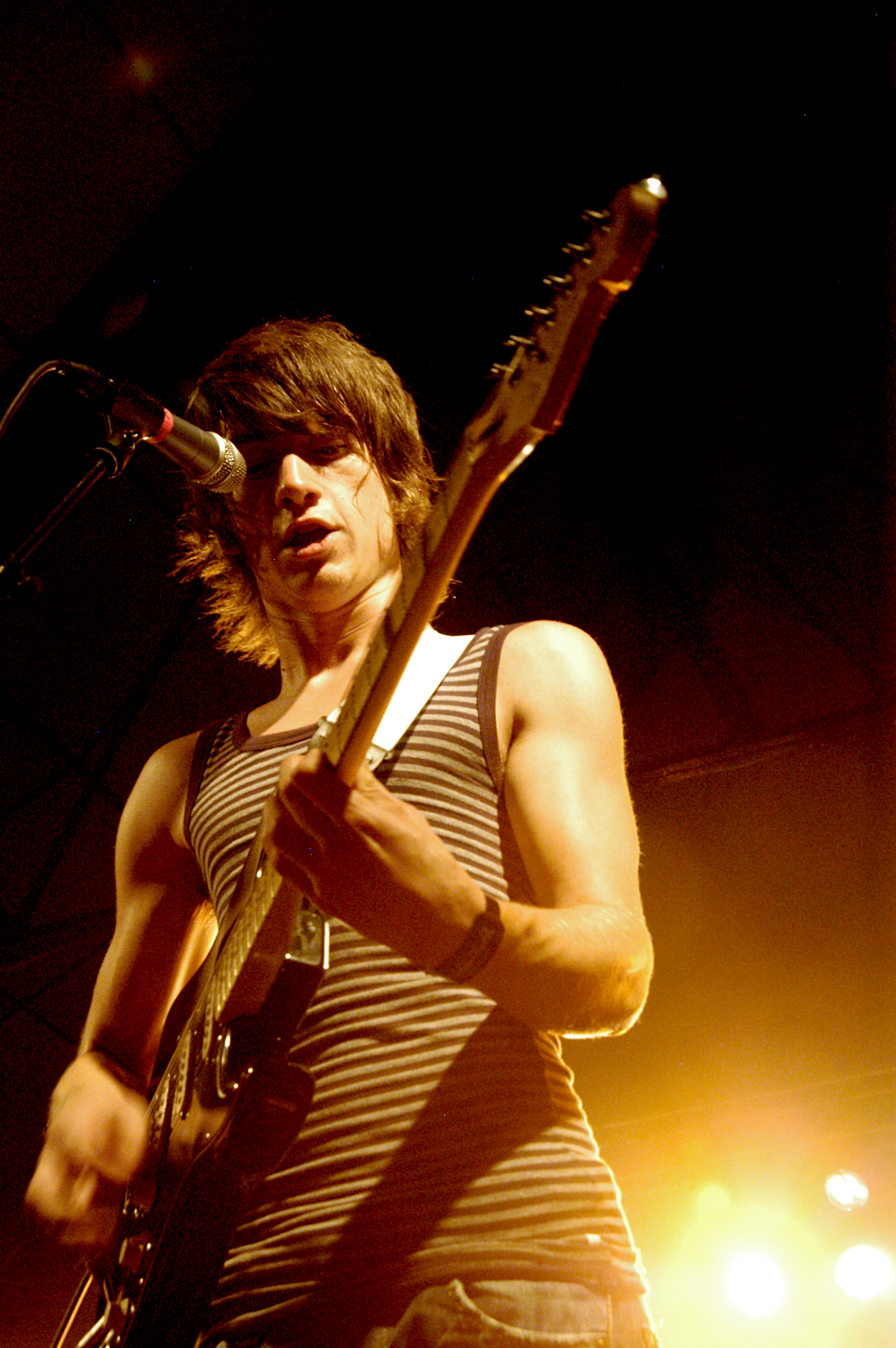 Alex Turner with the Arctic Monkeys, Accelerator, Stockholm